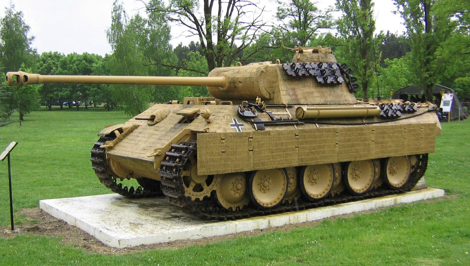 “Special purpose vehicle” of the German Wehrmacht until 1945, here: Sd.Kfz 171, German medium tank V, also Tank V, better known as "Panther", versions: D, A and G (version F, planning only). Actual file: "Panther", Ausf. G with 7.5-cm-KwK 40.Additional added anti-tank mine / non-magnetic - ("Zimmerit-") coating produced.